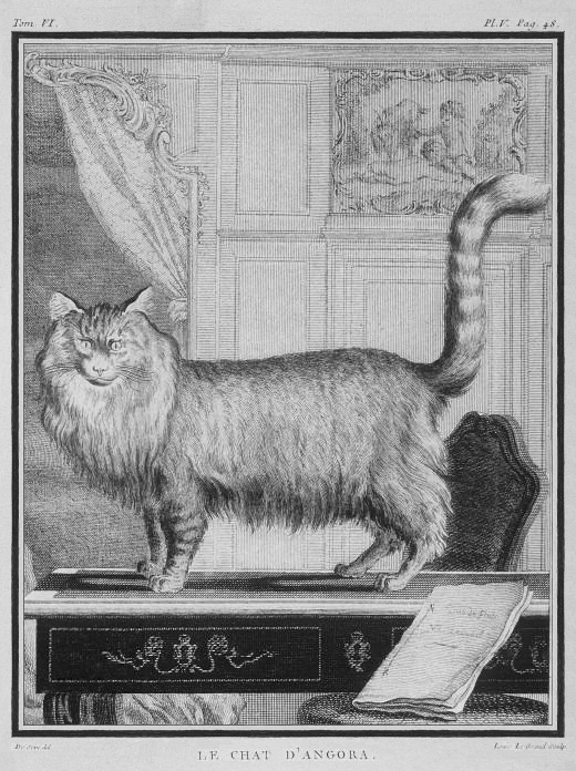 Le Chat d'Angora - Angora Cat (Felis silvestris catus) Image from the French book: Illustrations de Histoire naturelle générale et particulière avec la Description du Cabinet du Roy Tome VI (Volume 6), Plate V, Page 48 - Publisher: Imprimerie royale, Paris (retouched version: Removed spots and kink traces; restored historic black framing; cropping to mod-8 sizes)